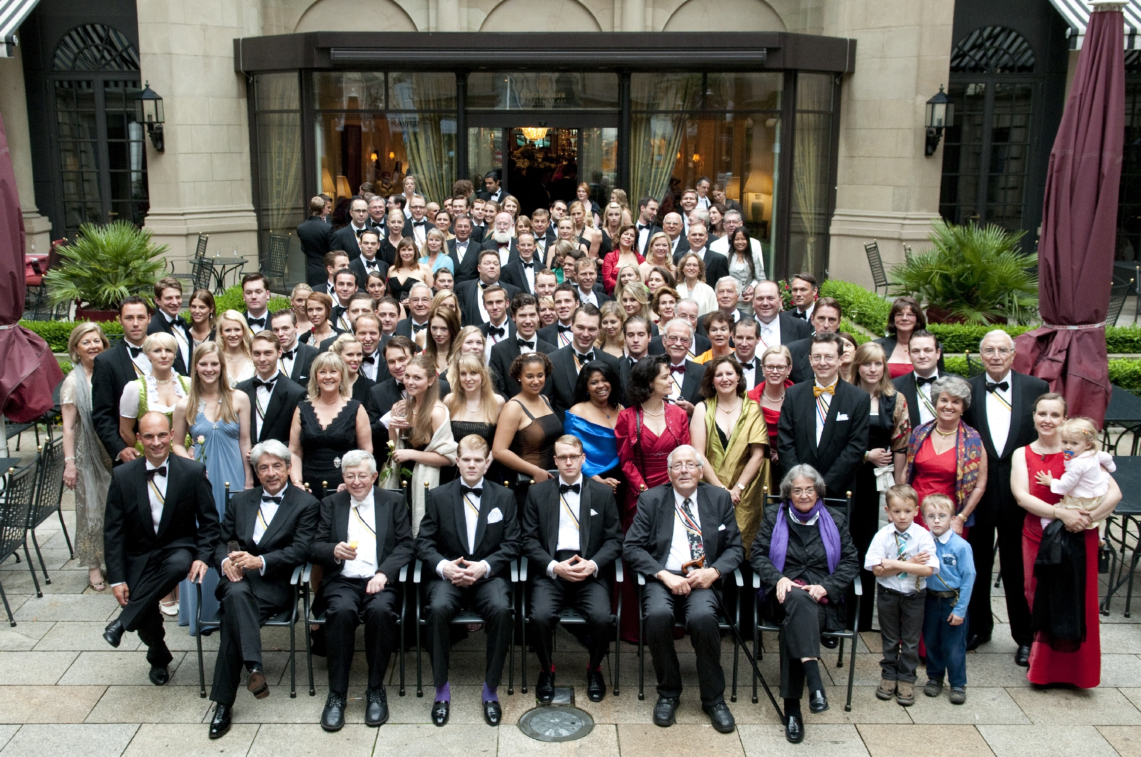 Ball of Corps Austria on the occasion of the 150th Founders’s Day Celebration 2011